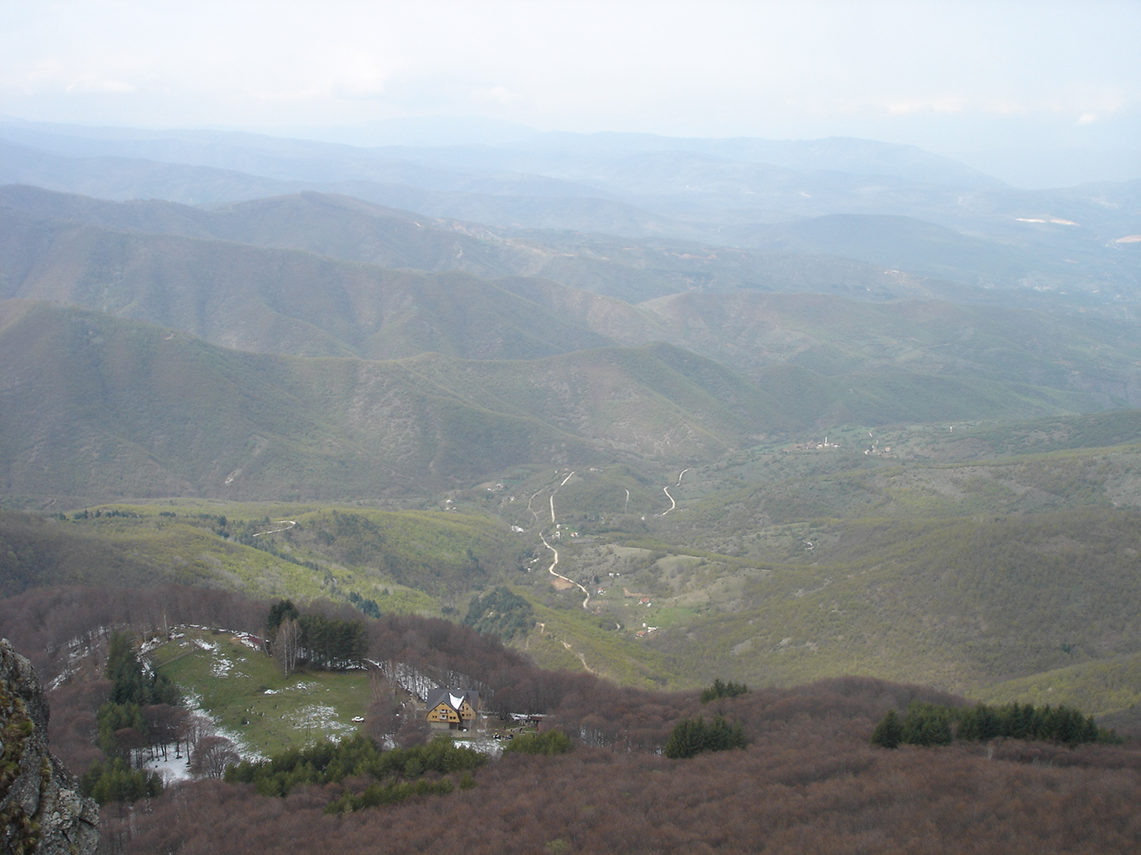 view of Torbeshija region from the peak of Kitka Mountain, Macedonia